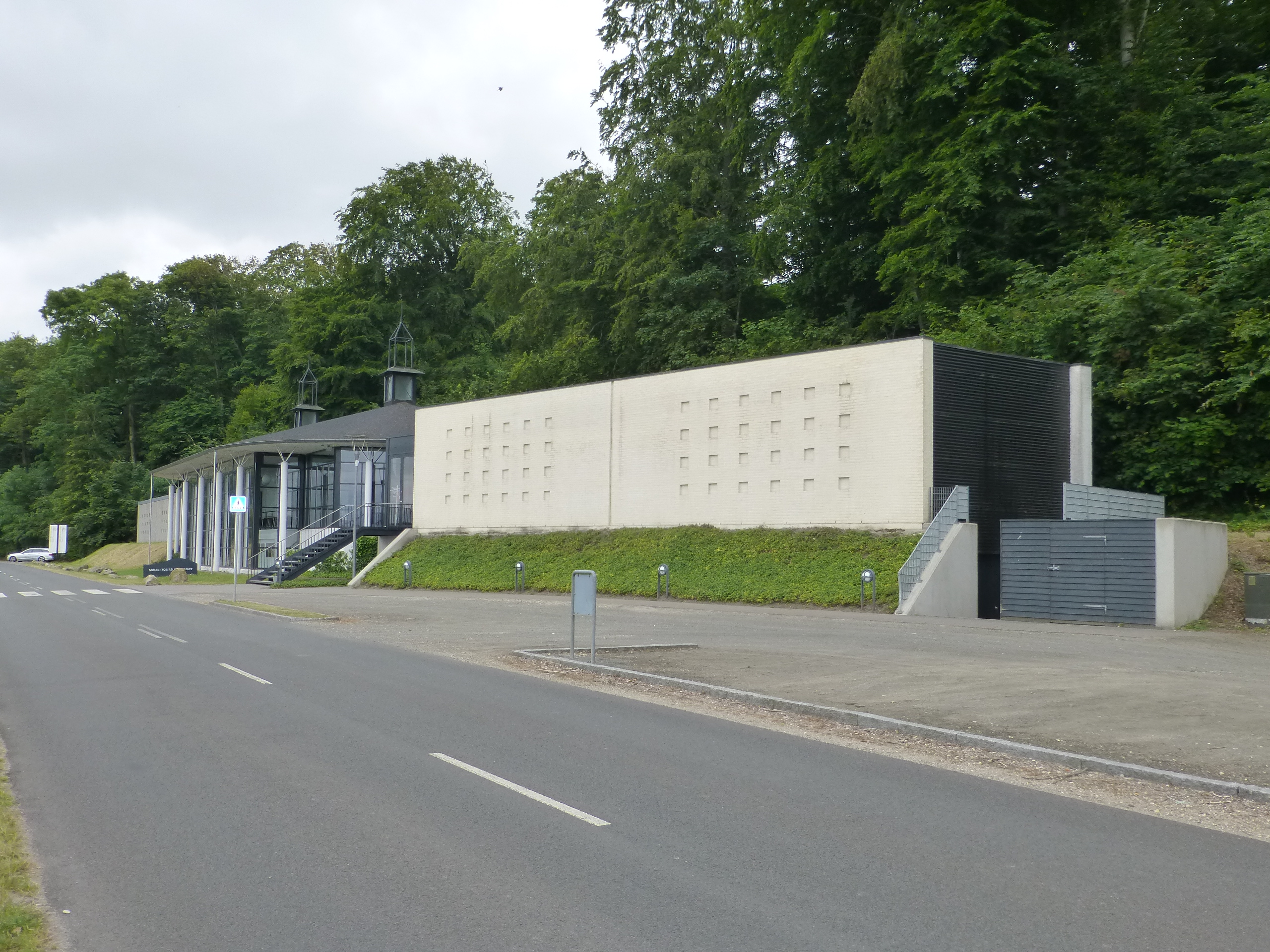 Museet for Religiøs Kunst (the Museum for Religious Art) in Lemvig in Denmark.